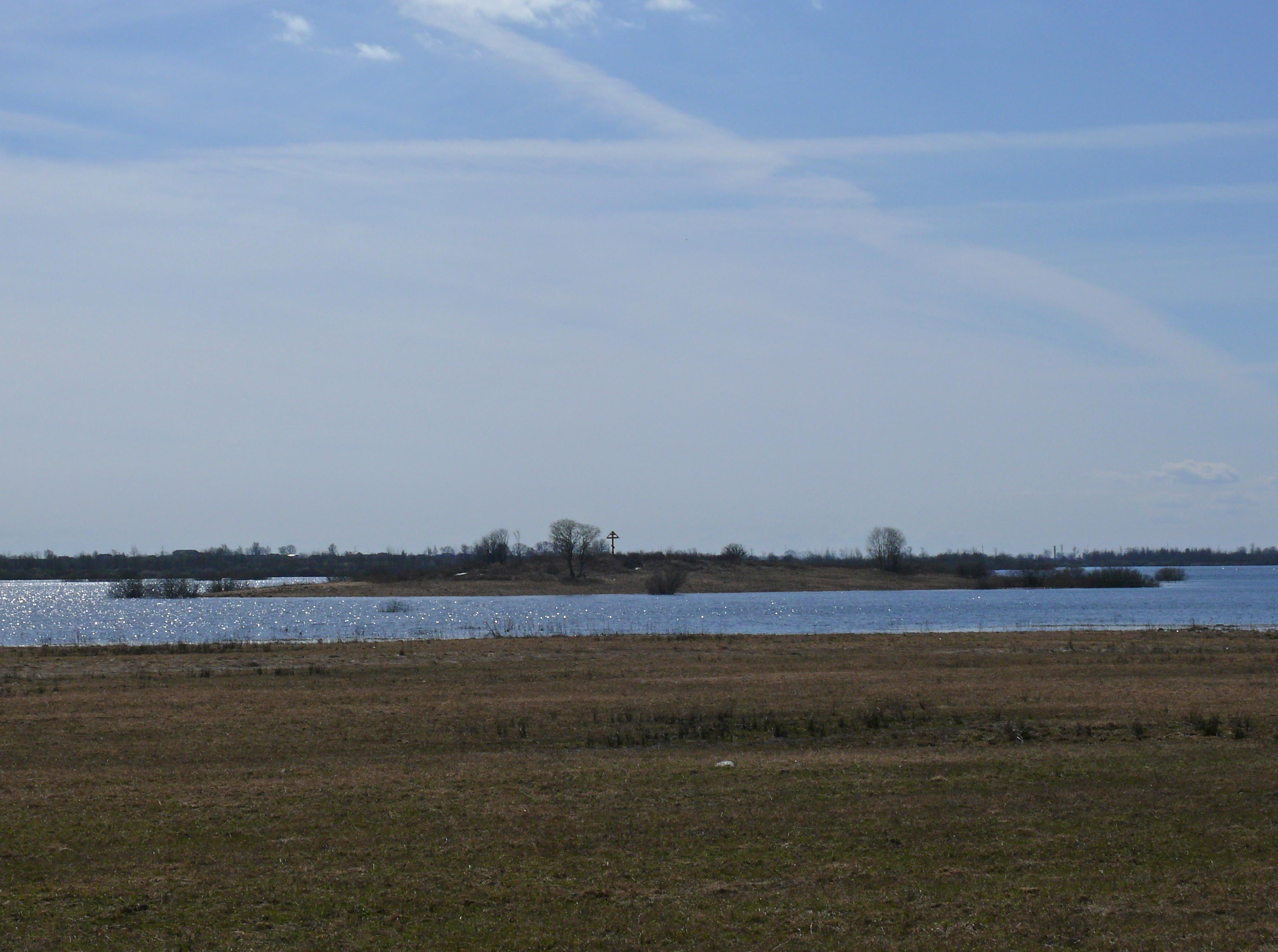 Lisitsky monastery near Novgorod, Russia